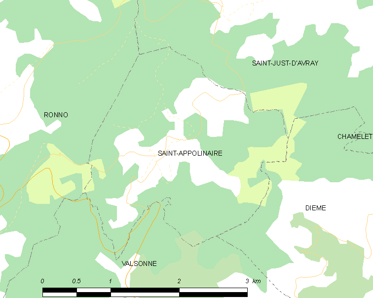 Map of French municipality